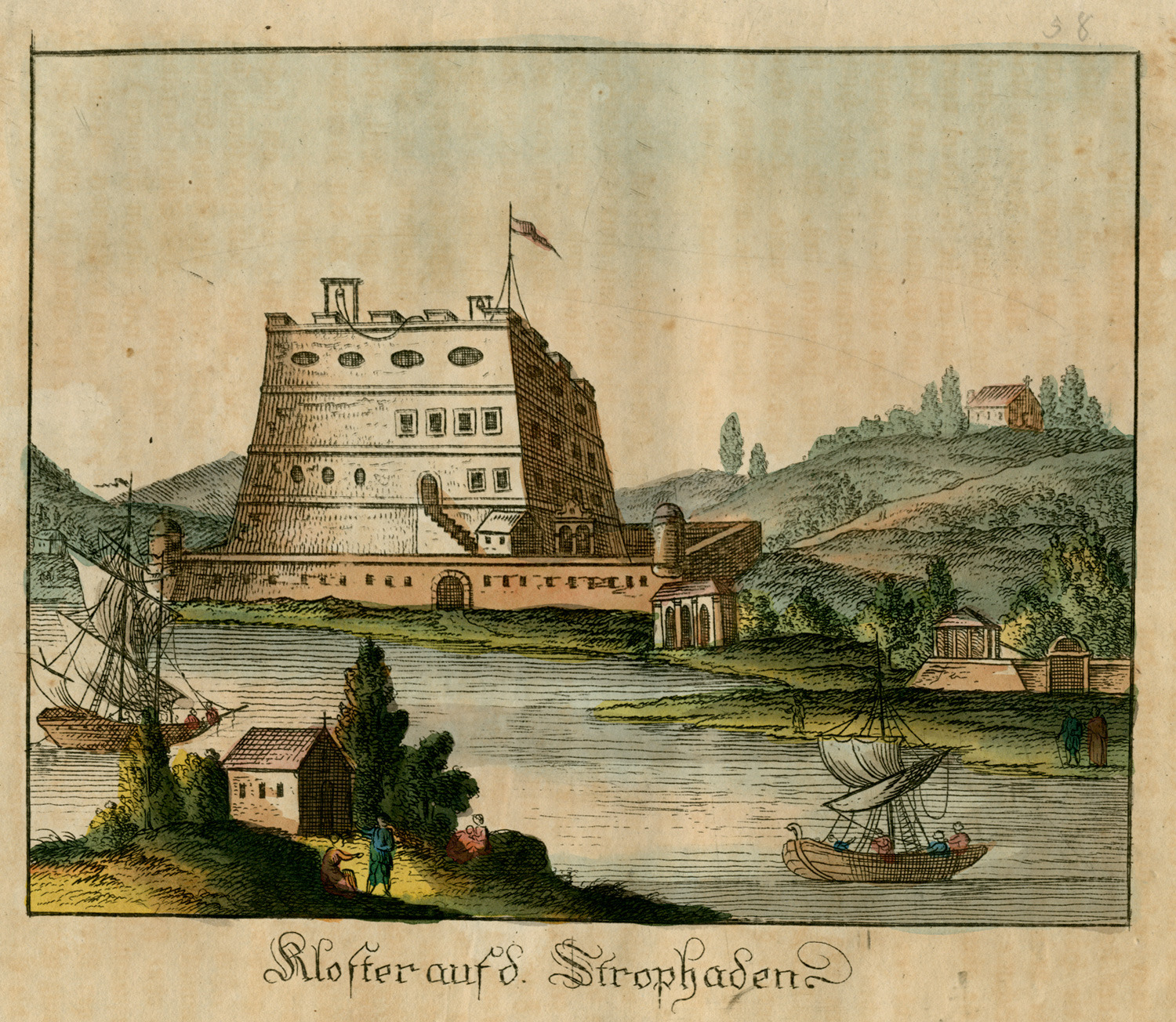 Kloster auf d Strophaden - Griechenland- Die Ionischen Inseln Nach Den Neuesten Und Beste Quellen Bearbeitet Schweidnitz Świdnica Ca - 1825